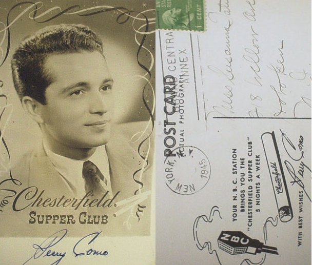 Promotional postcard Copyright details This promotional postcard was sent to listeners of NBC Radio's Chesterfield Supper Club in 1945 and can be dated by the card's postmark. There are no copyright marks on either side, as can be seen in the photo links. It is well within the free license timeframe. It was created for distribution to the radio show's listeners to induce regular listening and also to promote the Chesterfield brand of cigarettes. This card pre-dates the co-hosting of the program by Jo Stafford (did not begin until 1946) and Peggy Lee (did not begin until 1948).